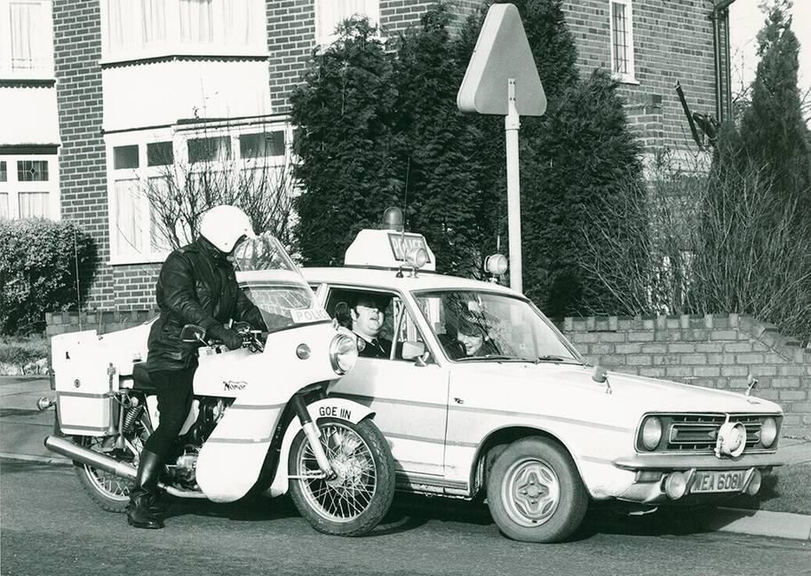 West Midlands Police vehicles of the mid-1970s: a Morris Marina saloon car and Norton Interpol motorcycle. You can view previous historic photos earlier on in our Photo of the Day project.